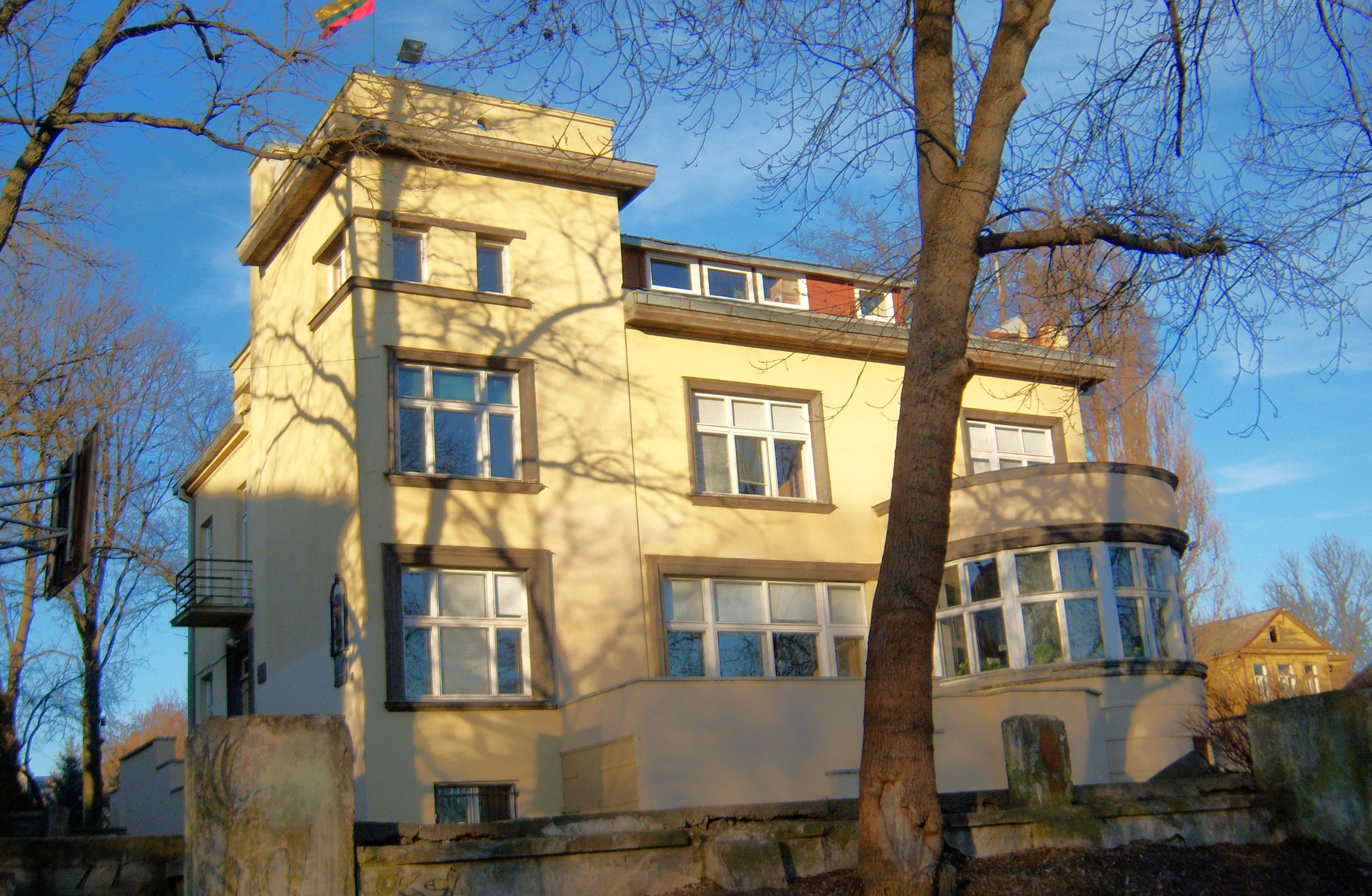 Kaunas Art Gymnasium at Dainavos street, Lithuania